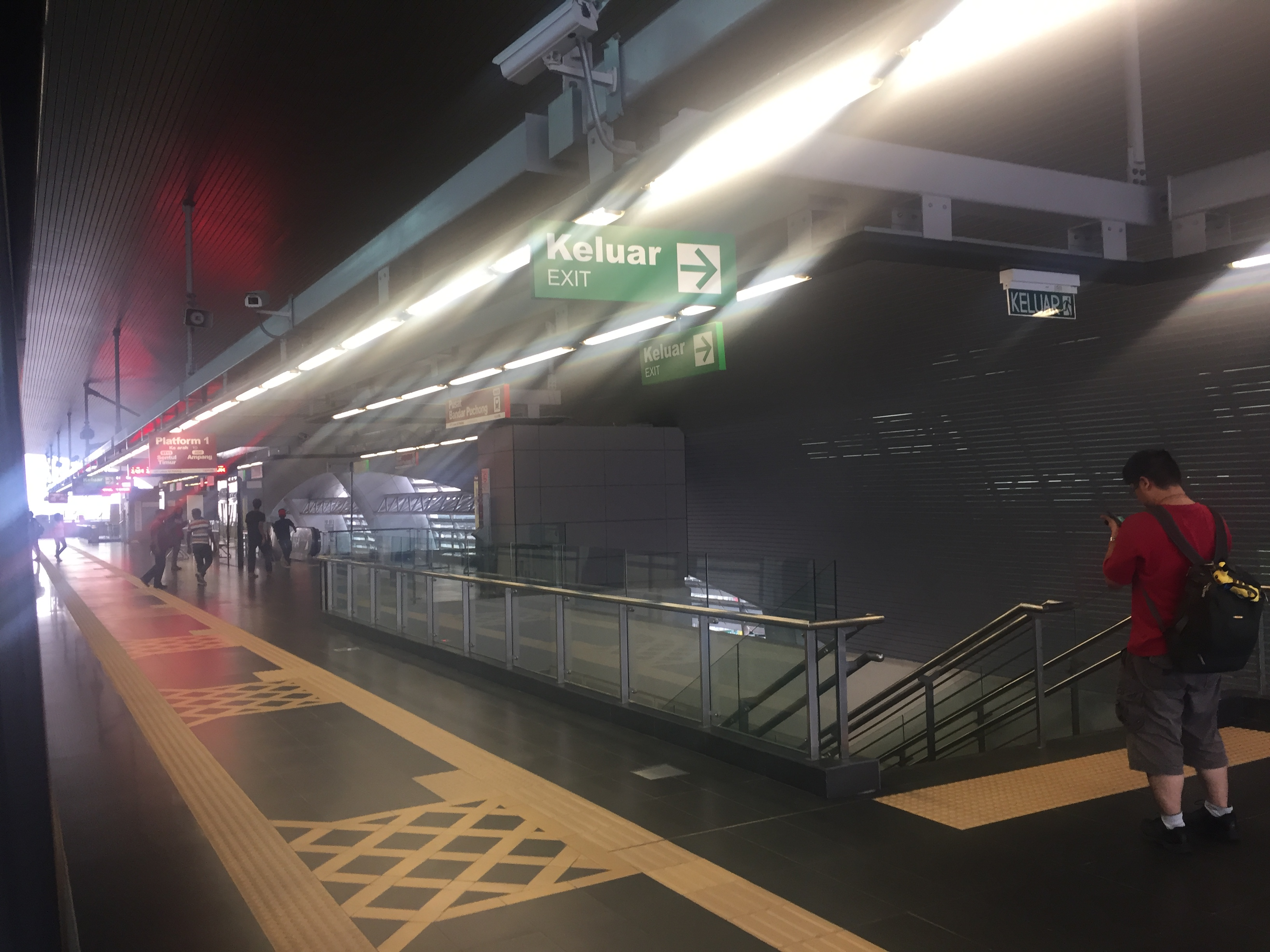 The side platform at Pusat Bandar Puchong LRT station.